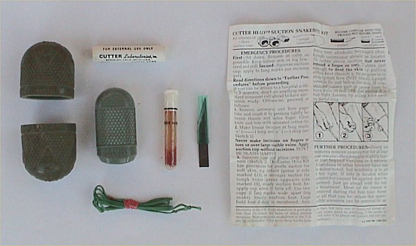 Photographer: LA Dawson Kit provided by Austin Reptile Service.